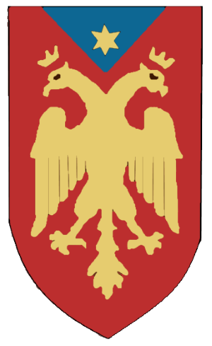 Coat of arms Principality Muzakaj (from 1372)